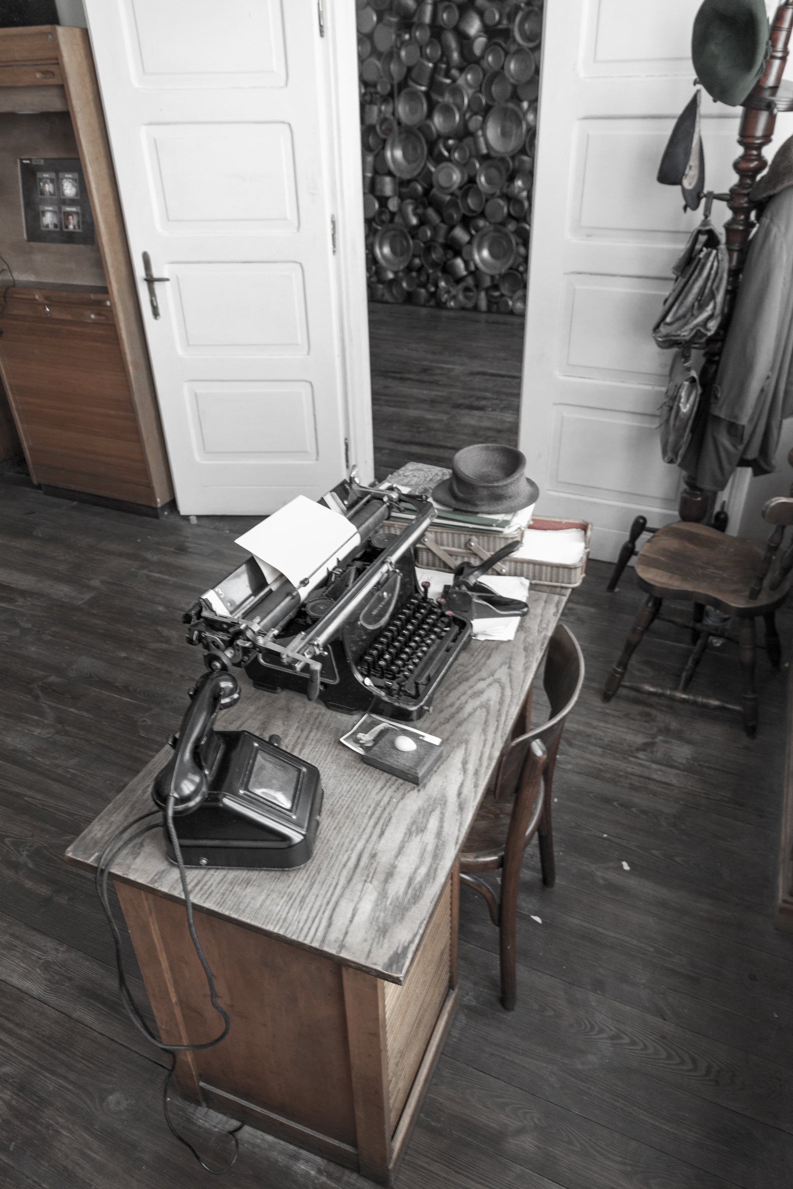 Oskar Schindler's desk displayed at Oskar Schindler's Enamel Factory, Kraków, Poland.